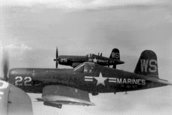 U.S. Marine Corps Vought AU-1 Corsair fighters from Marine attack squadron VMA-323 Death Rattlers in flight over Korea, circa 1953.